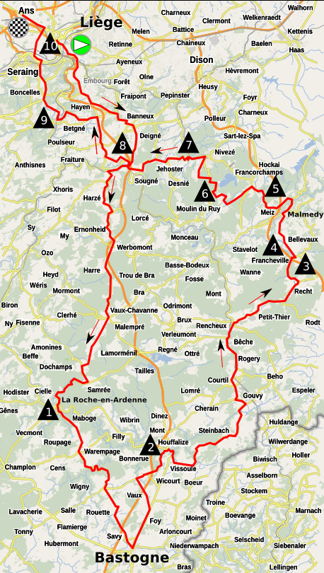 Map of Liège-Bastogne-Liège 2017 (approximative)